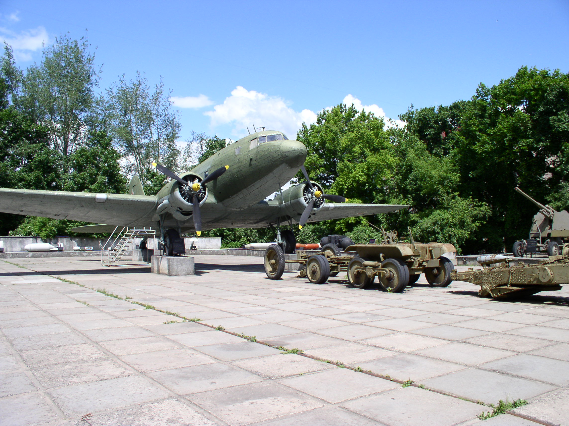 Museum of Great Patriotic War's Exhibition, Minsk, Belarus.